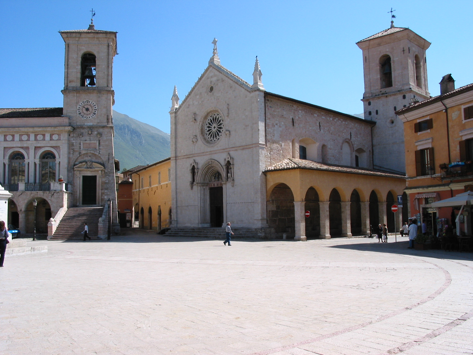 Norcia, Umbria, Italia